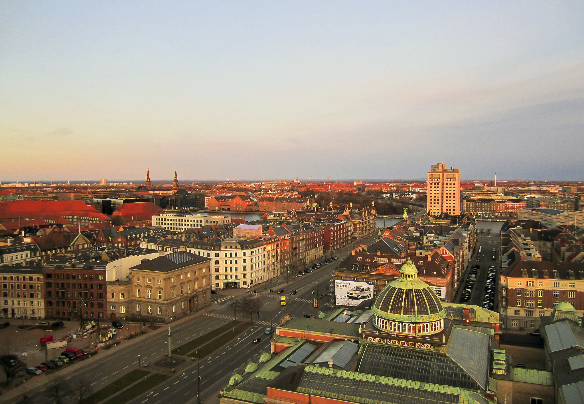 View towards Amager Copenhagen